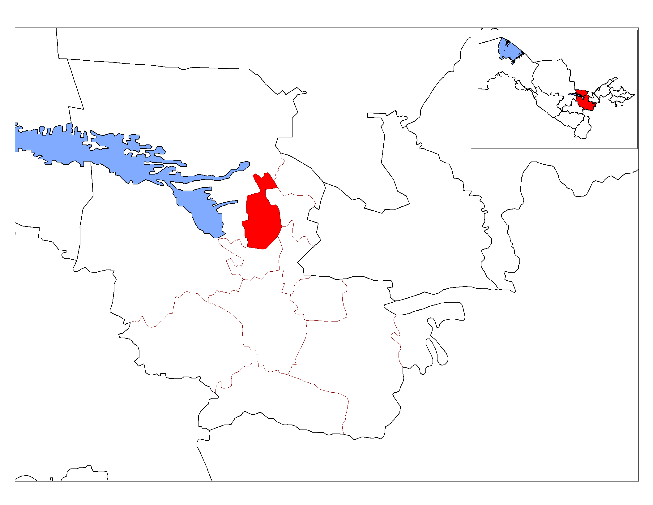 Location map of Arnasoy District in Jizzax Province, Uzbekistan